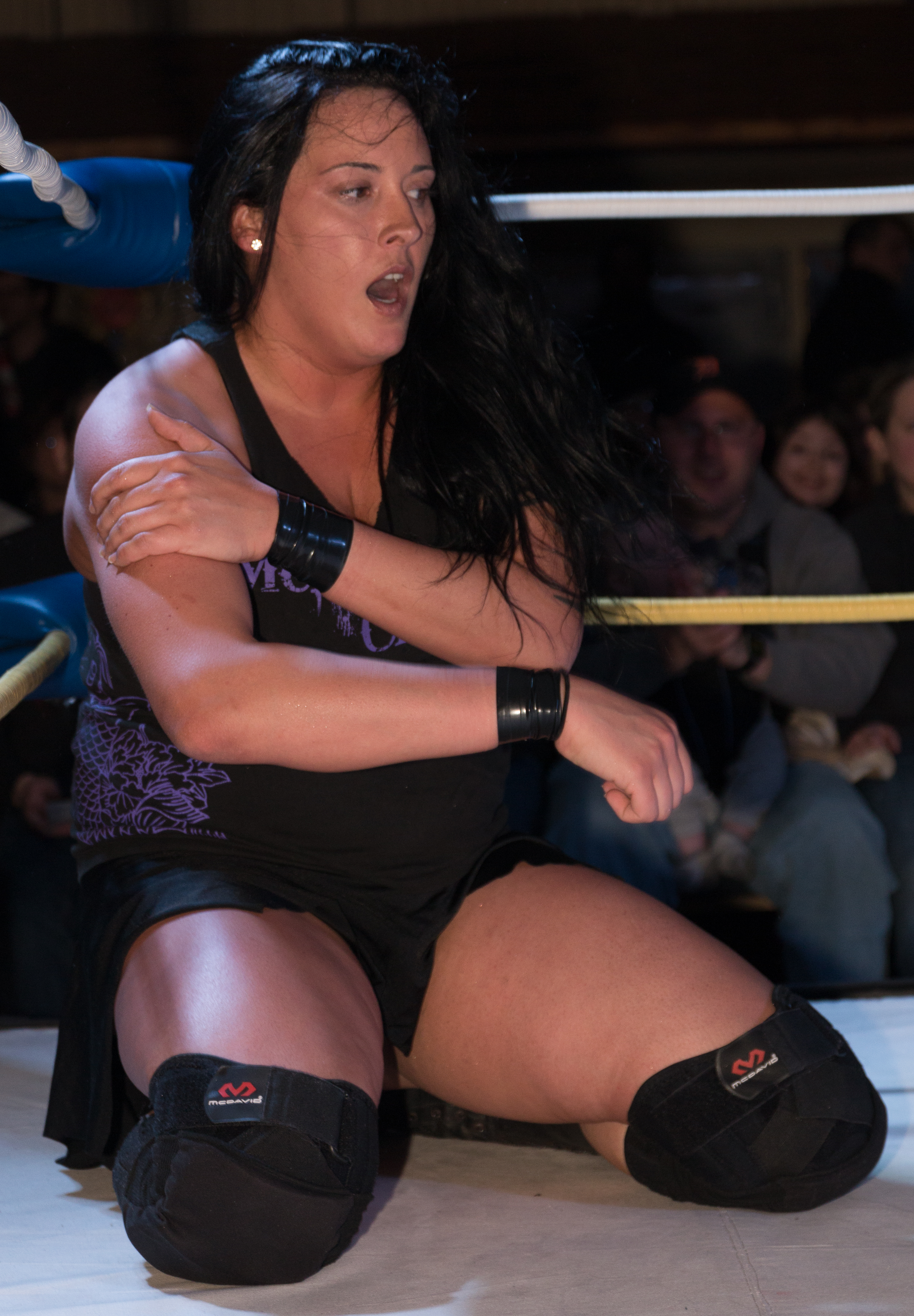 Melanie Cruise post-match at a BWCW match in Port Huron, MI